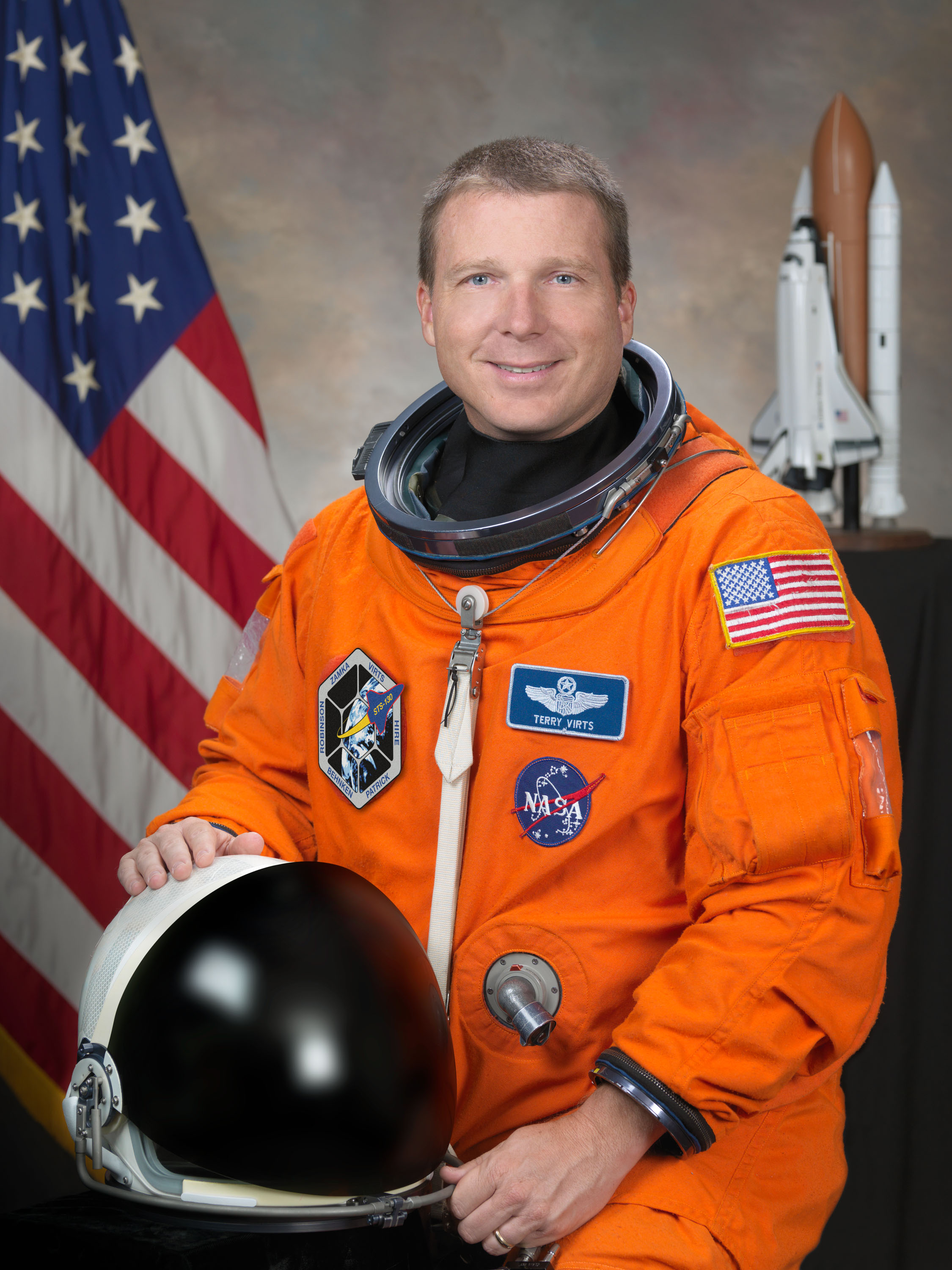 Astronaut Terry W. Virts Jr., pilot